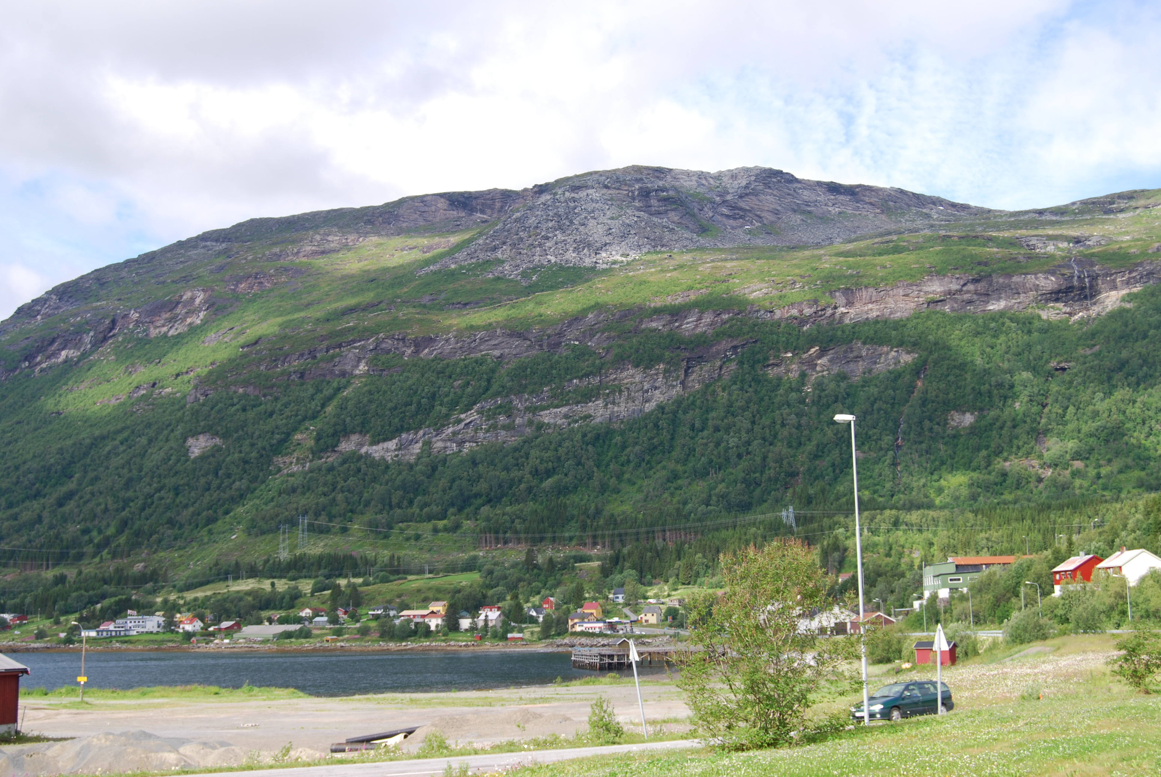 Evenes village, Evenes municipitaly, Norway.